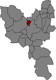 Location of Sarrià de Ter in Gironés